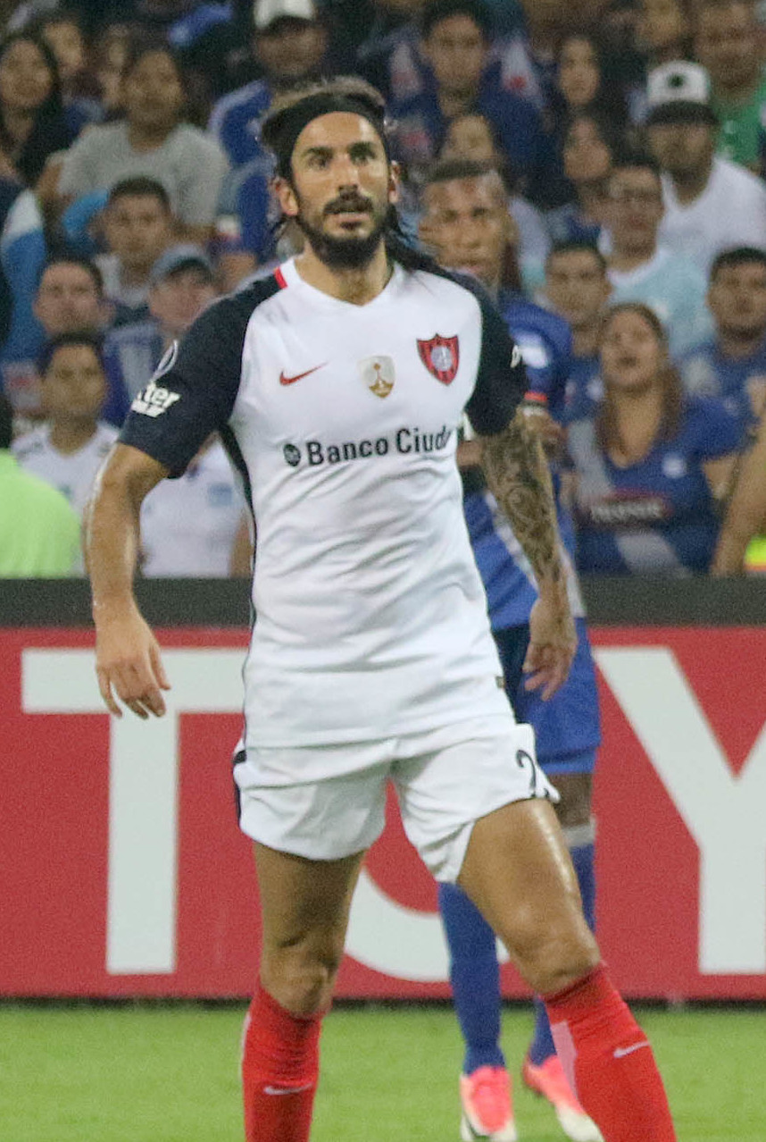 Guayaquil, jueves 06 de julio del 2017 (Andes).-Emelec enfrenta a San Lorenzo por los octavos de final de la Copa Libertadores, El partido se disputa en el estadio Capwell.Foto:Andes/César Muñoz